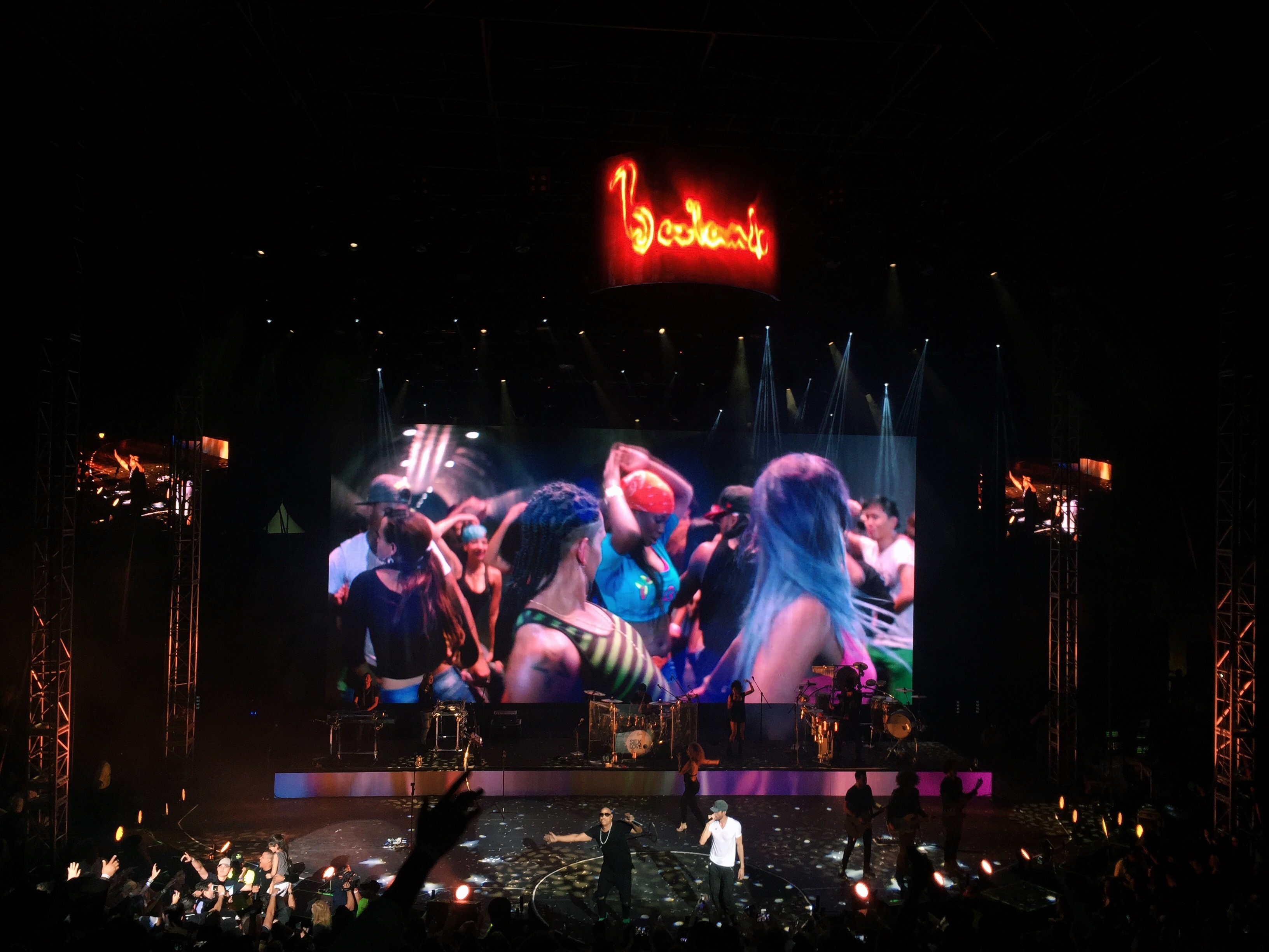 Gente de Zona en concierto con Enrique Iglesias, República Dominicana en Diciembre del 2016